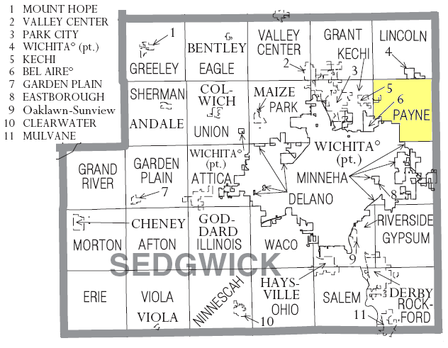 Map of Sedgwick County, Kansas highlighting Payne Township